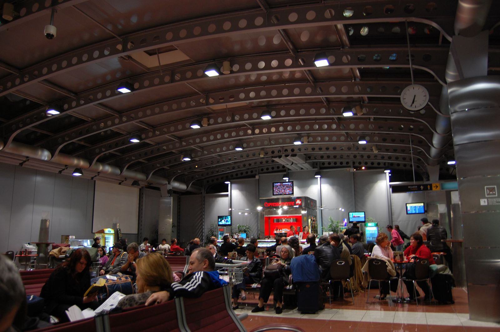 Departure Lounge at Ferihegy Terminal 1 (Budapest Ferihegy International Airport)